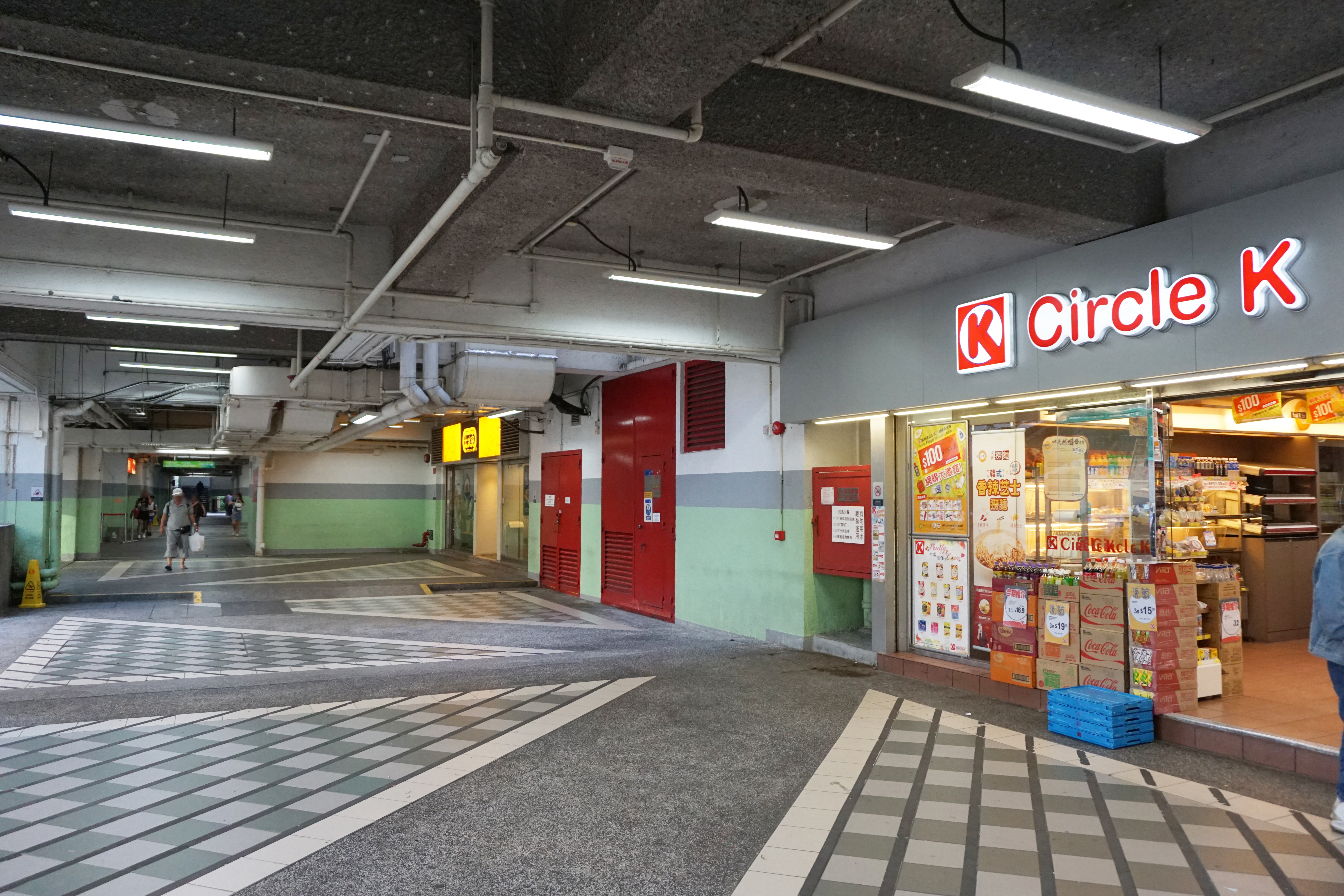 Shan King Commercial Centre in Tuen Mun, Hong Kong.